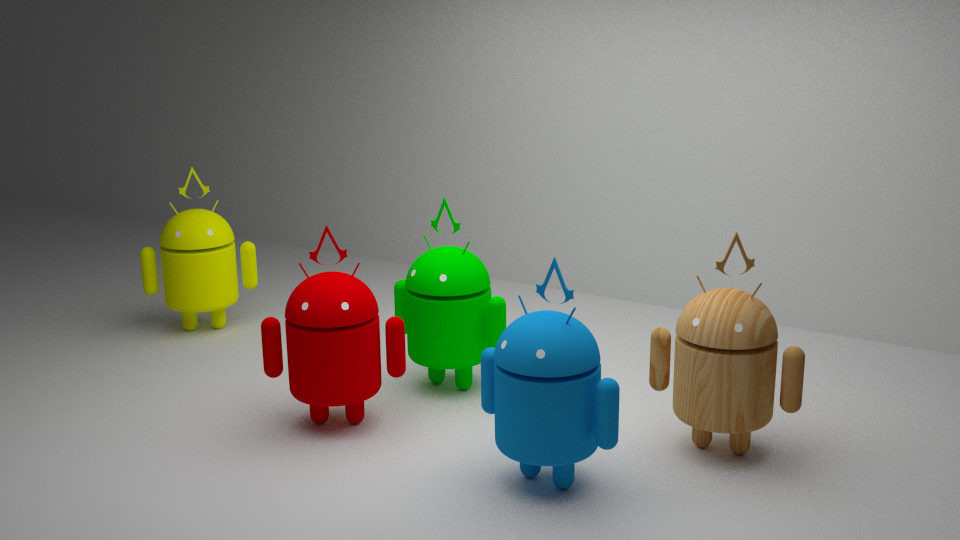 android logo made in blender with the AC icon